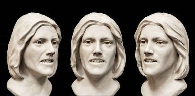 Reconstruction of an unidentified young woman murdered in 1992 in Wyoming